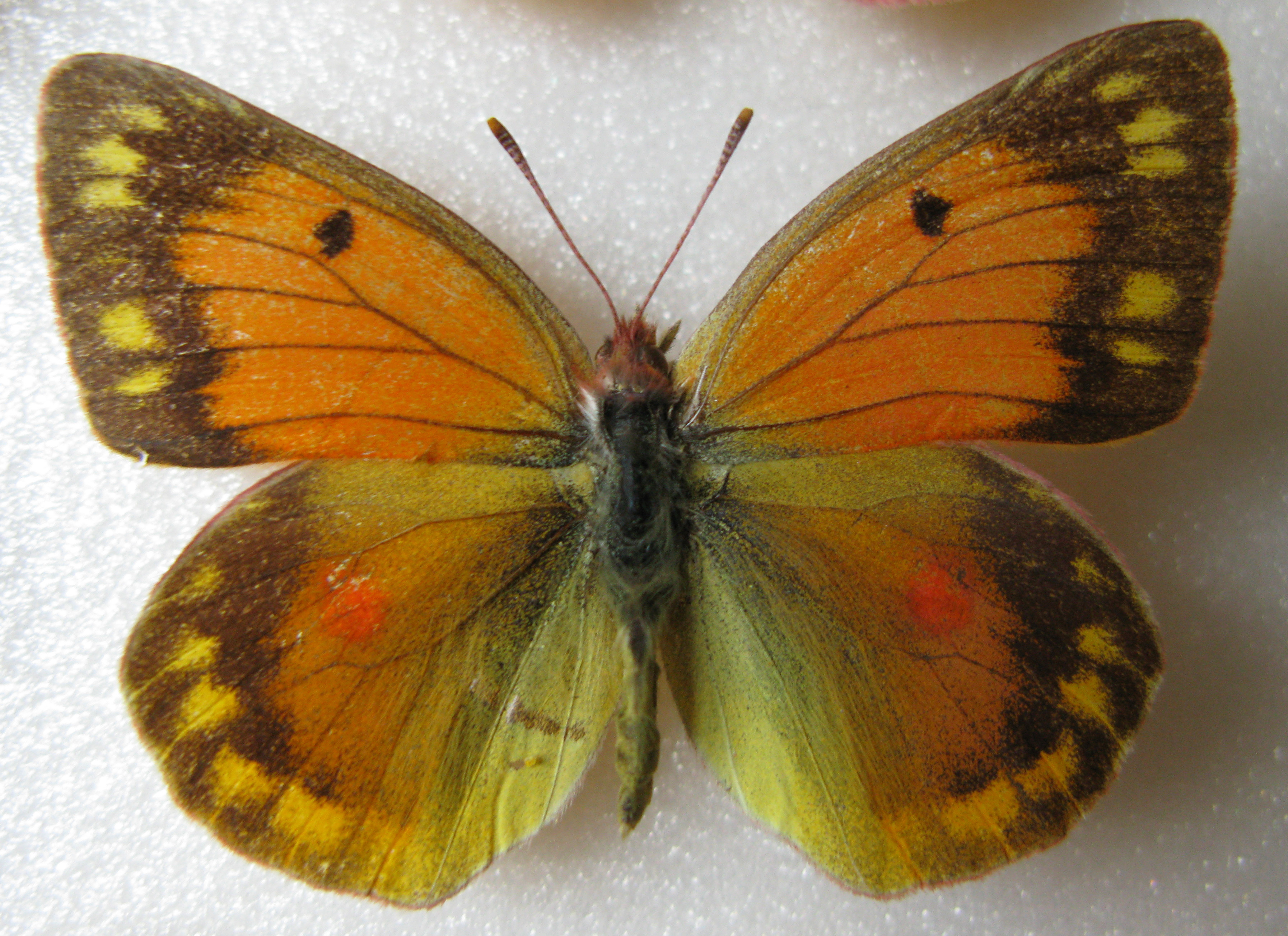 Colias staudingeri female